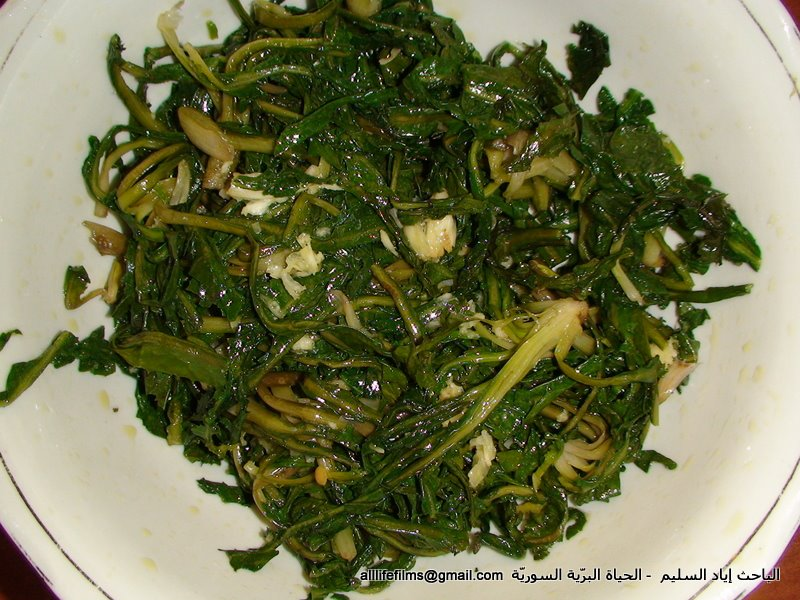 نباتات برية سورية تؤكل